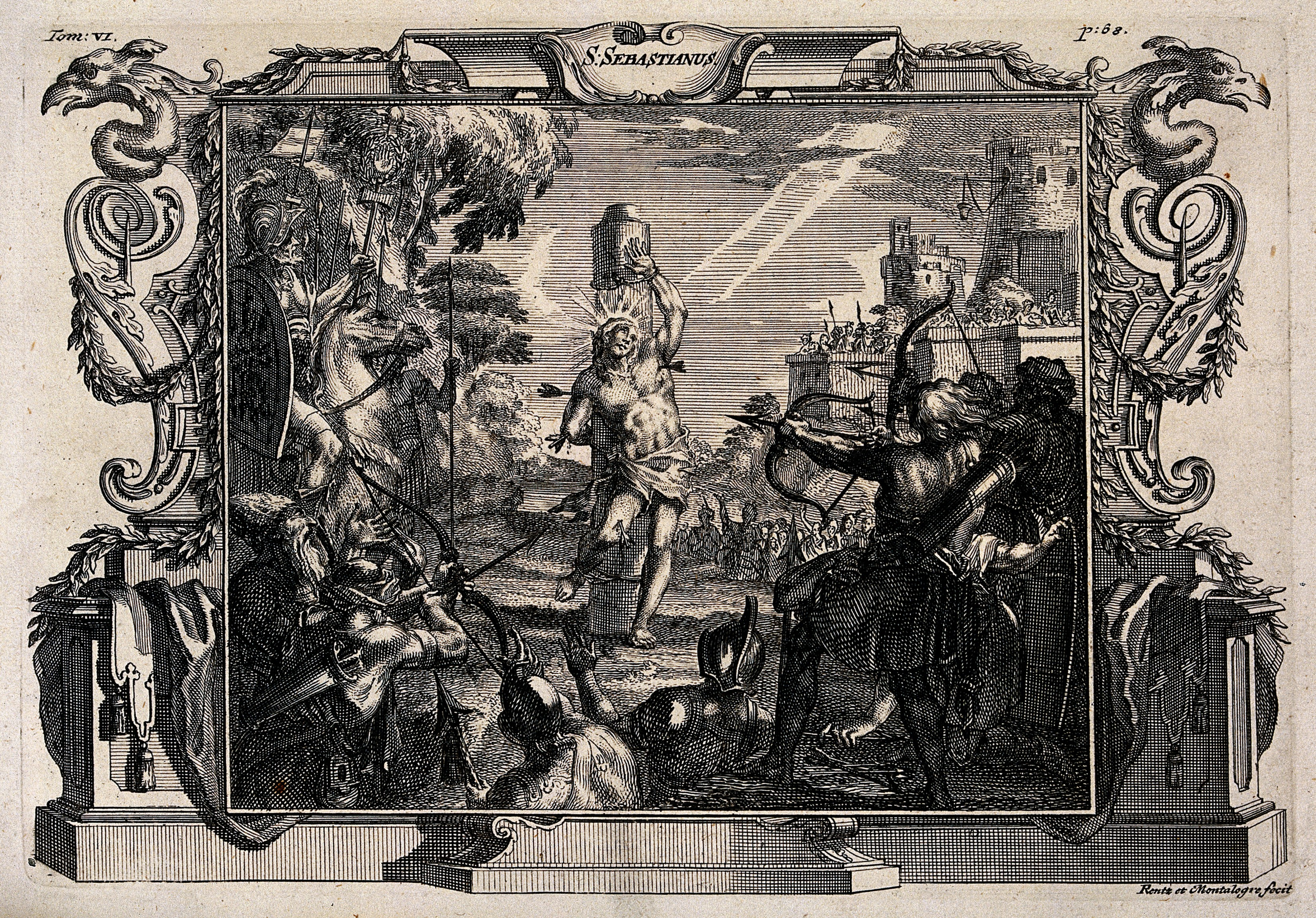 Martyrdom of Saint Sebastian. Etching by M.H. Rentz and J. de Montalegre. Iconographic Collections